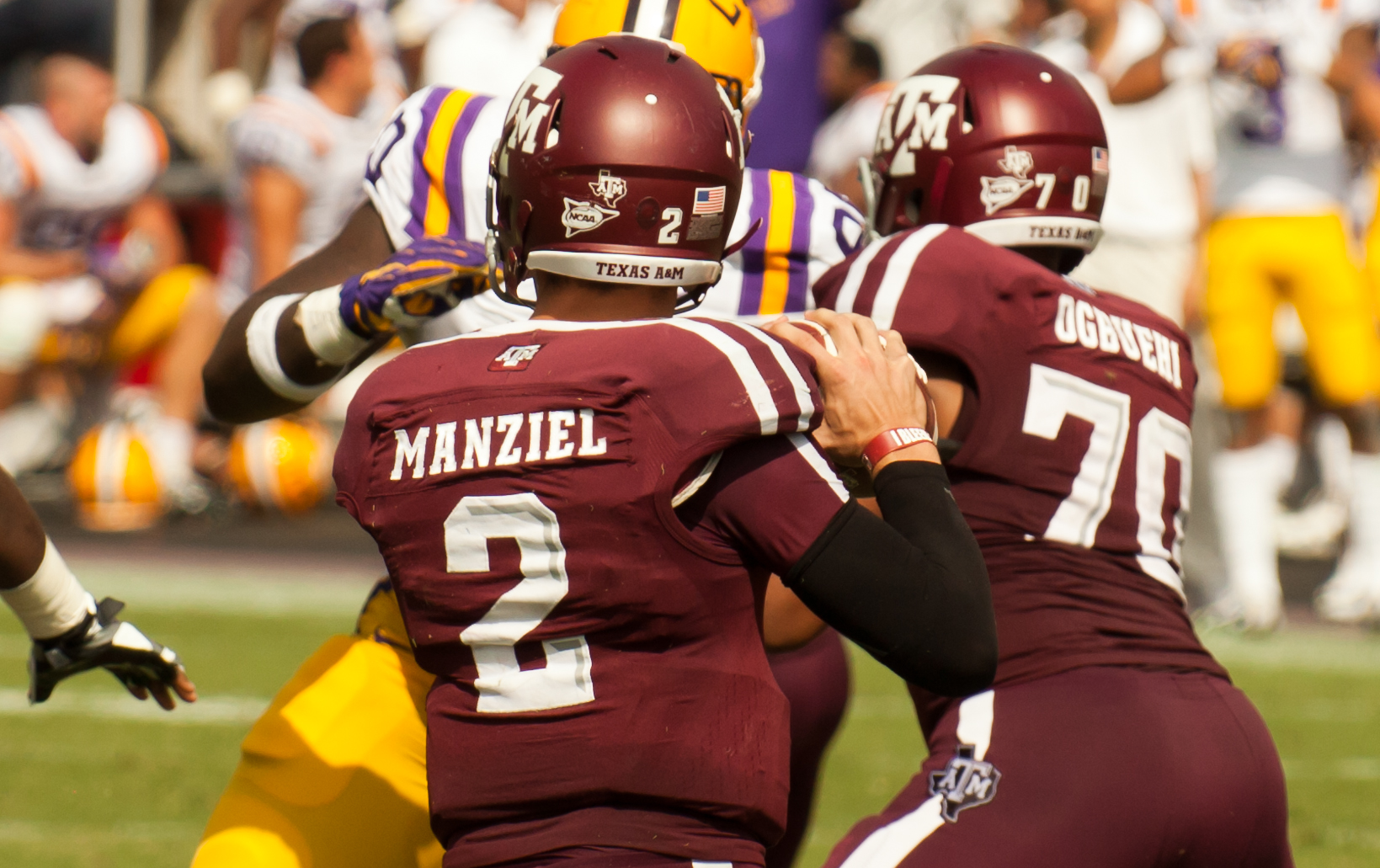 Texas A&M quarterback Johnny Manziel playing against the LSU Tigers on October 20th, 2012 in Kyle Field in College Station Texas